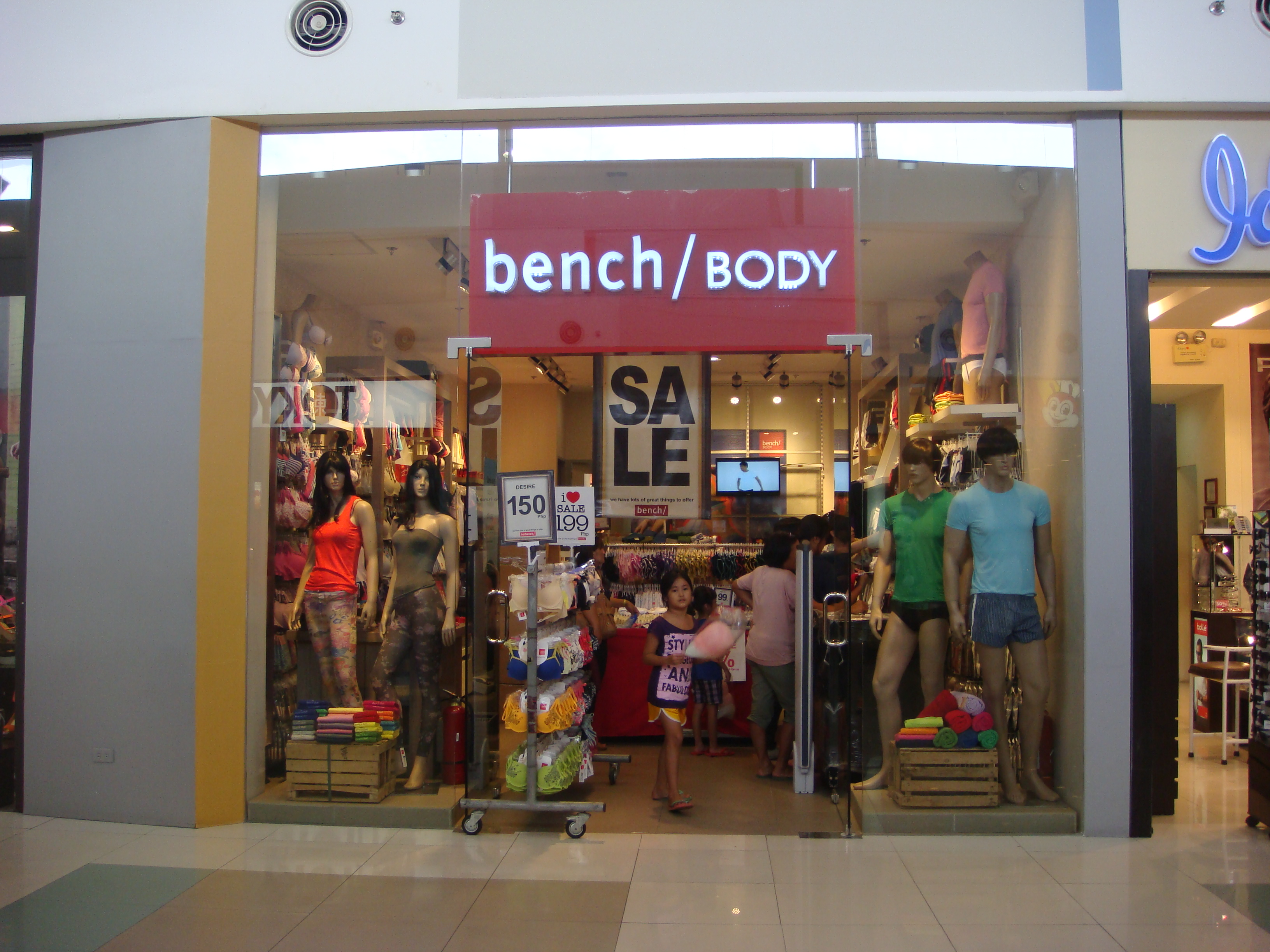 Bench (Philippine clothing brand)[1] at SM City Baliuag